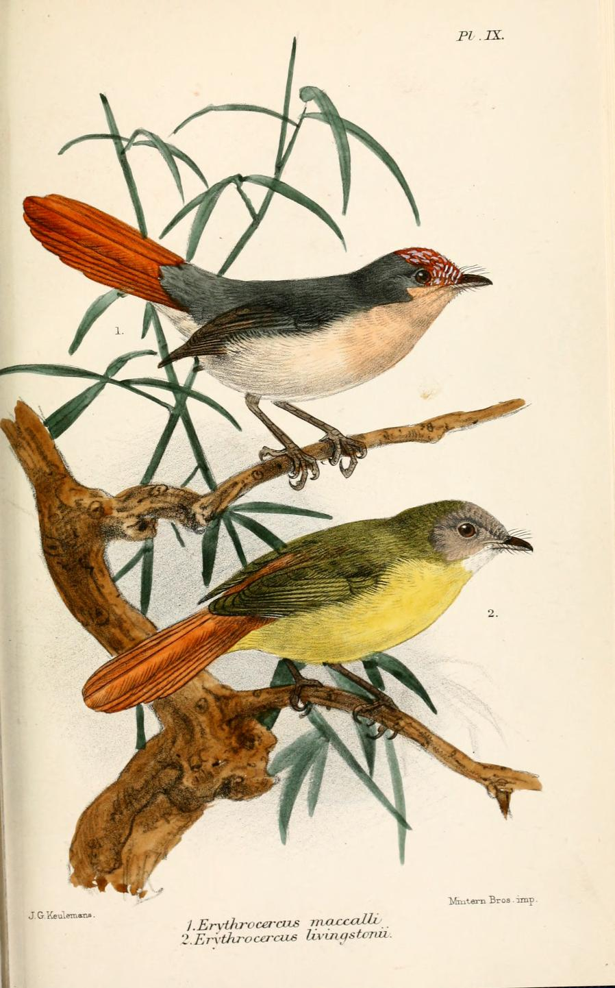 Erythrocercus maccalli = Erythrocercus mccallii Chestnut-capped Flycatcher (above); andErythrocercus livingstonii = Erythrocercus livingstonei Livingstone's Flycatcher (below)